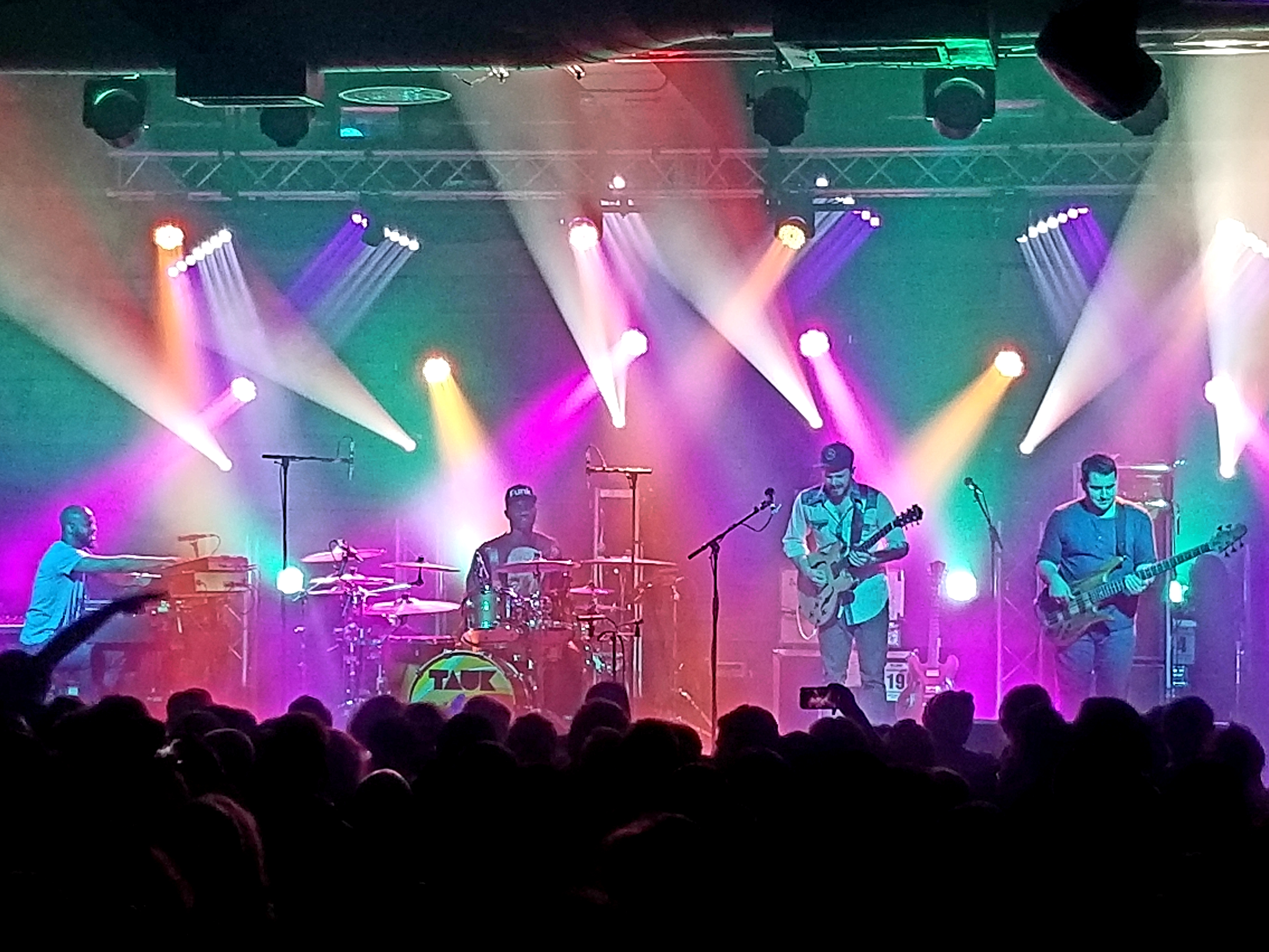 Tauk @ Concord Music Hall in Chicago